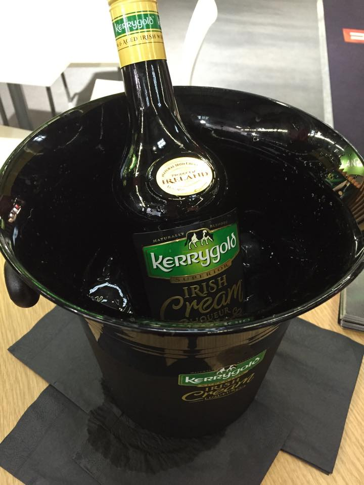 Kerrygold Image at VinExpo in Bordeaux 2015